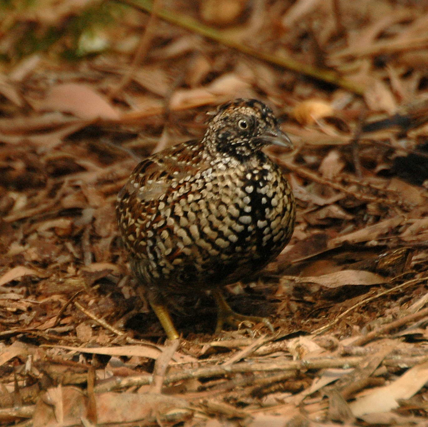 Black-breasted Button-quail Turnix melanogaster Inskip Pt, SE Queensland, Australia